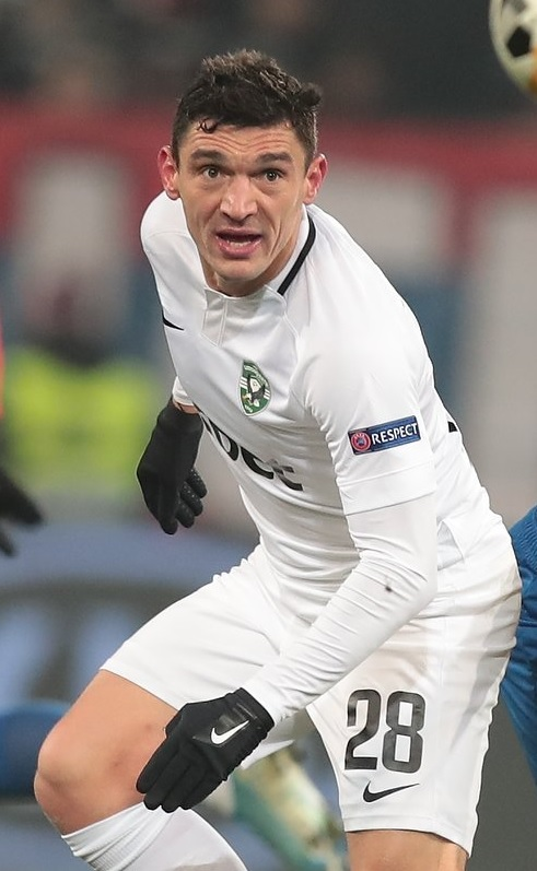 Claudiu Keșerü with PFC Ludogorets Razgrad in an Europa League game against PFC CSKA Moscow.